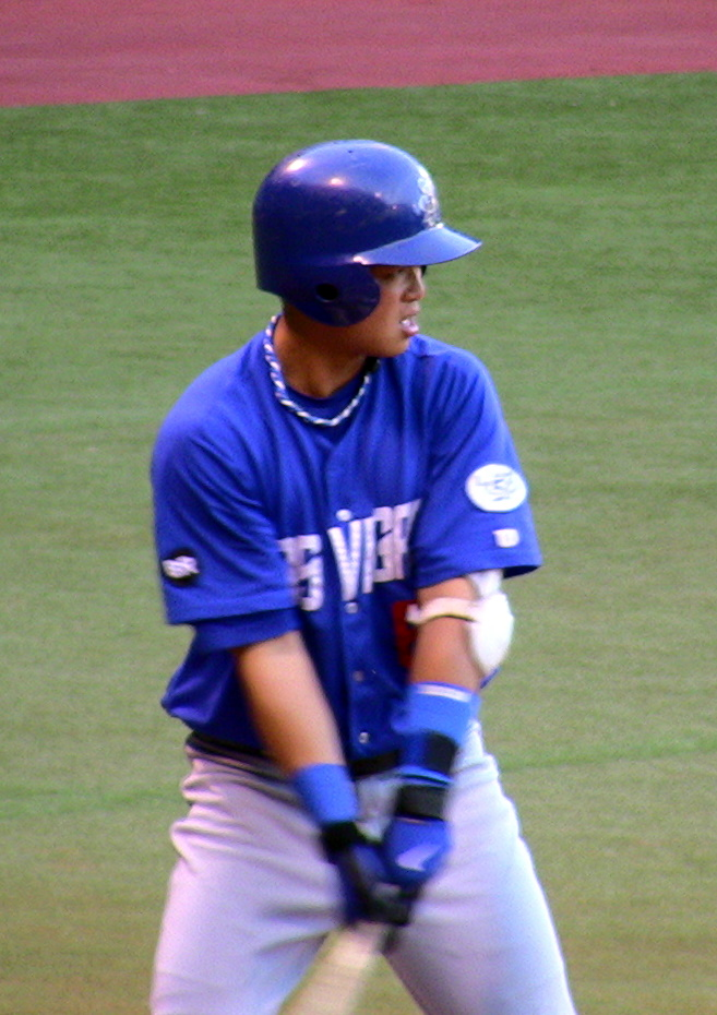 Chin-Lung Hu bats in PGE Park against the Portland Beavers as a member of the Los Angeles Dodgers Triple-A affiliate, Las Vegas 51's. Photo was taken in August, 2007. 03:35, 16 April 2008 . . Sp8cem0nkey . . 657×930 (216 KB)